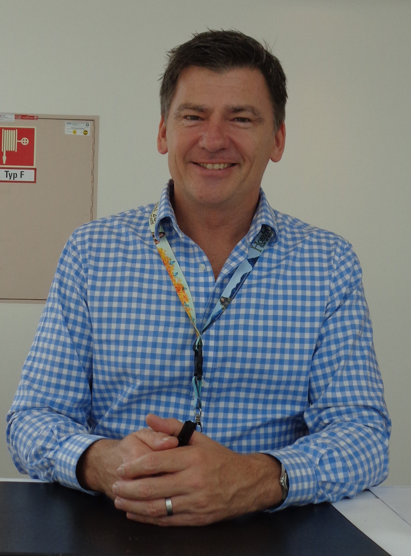 Mark Ferguson signing autographs on April 6, 2015 at the Hobbitcon III convention in Bonn, Germany, which he also hosted as the Master of Ceremonies. Photo by Alexandr Polnikov }